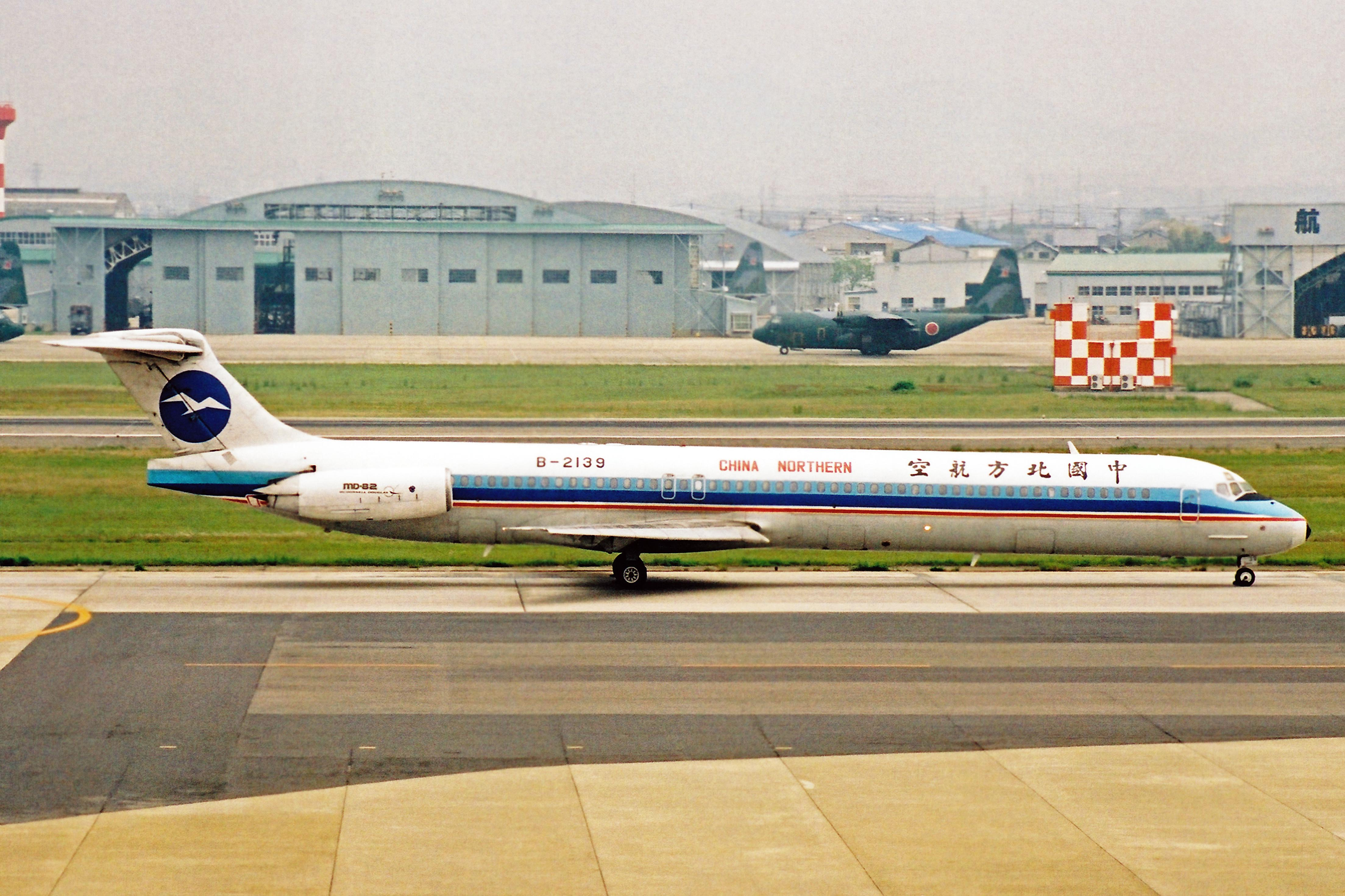 B-2139 MD-82 China Northern Al NGO